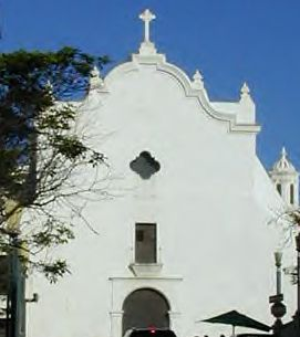 Old San Jose Church in San Juan, Puerto Rico